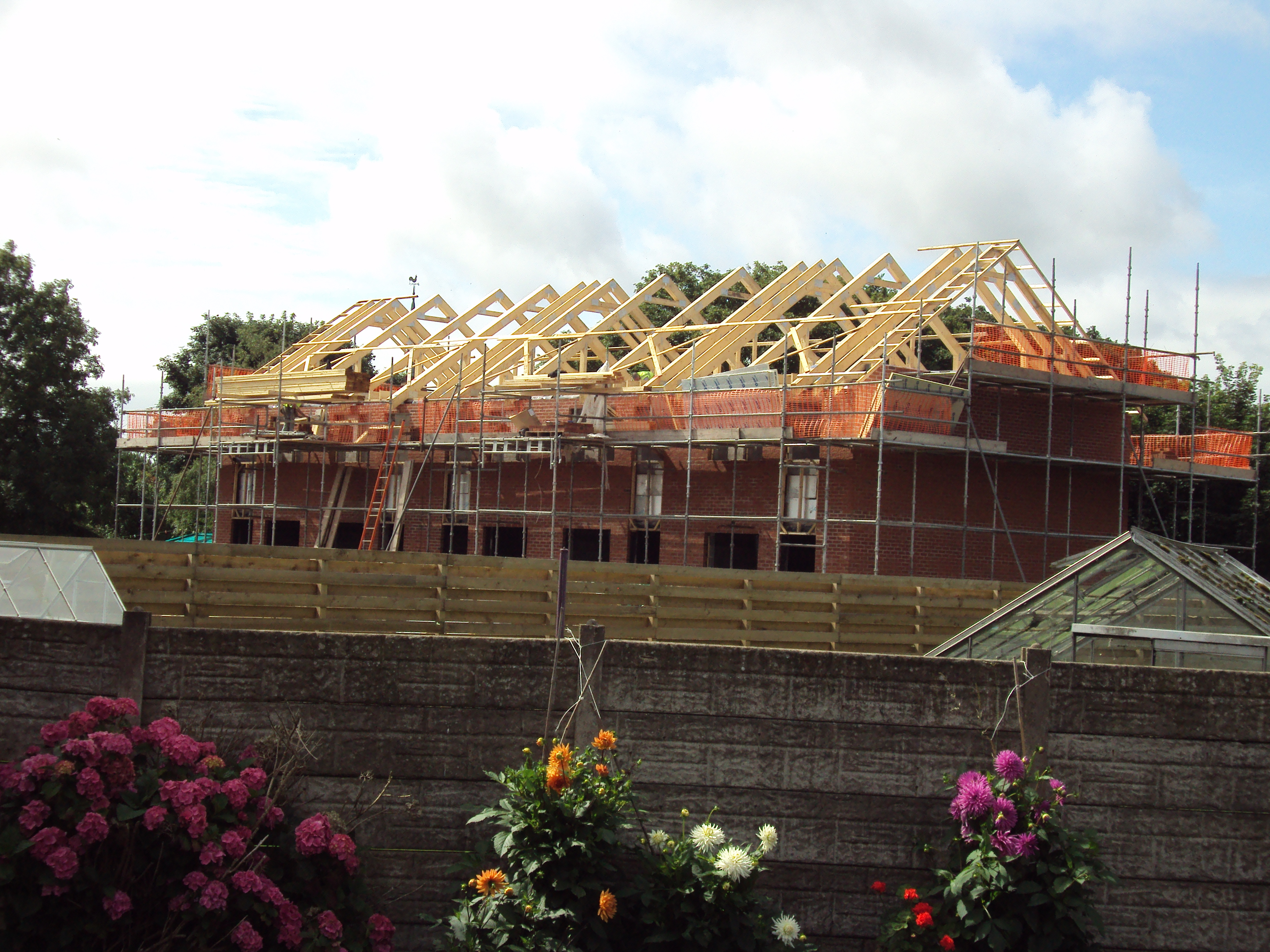 Building under construction as seen from Charnley's Lane, Banks, Lancashire, England.